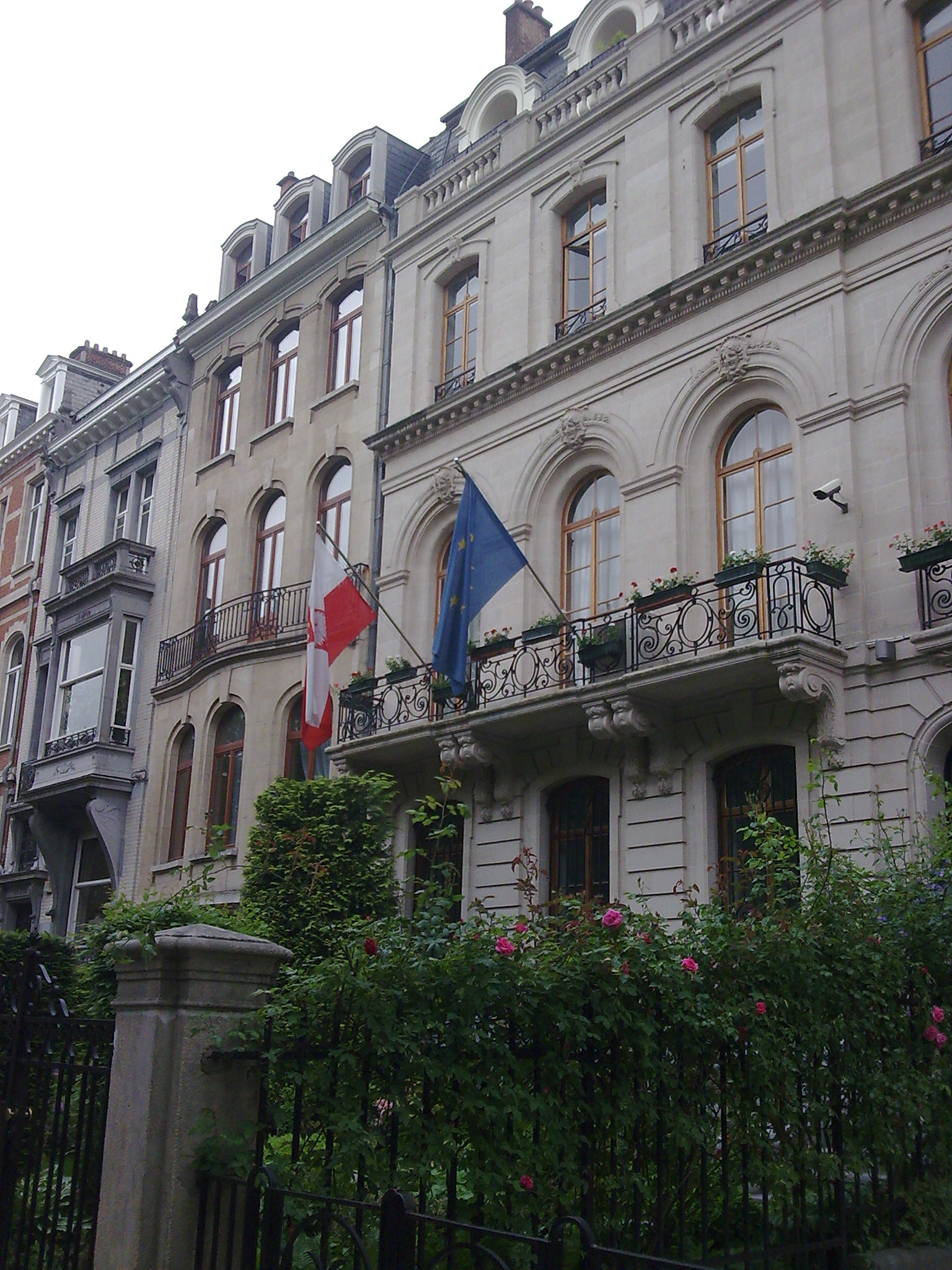 Polish Embassy in Brussels